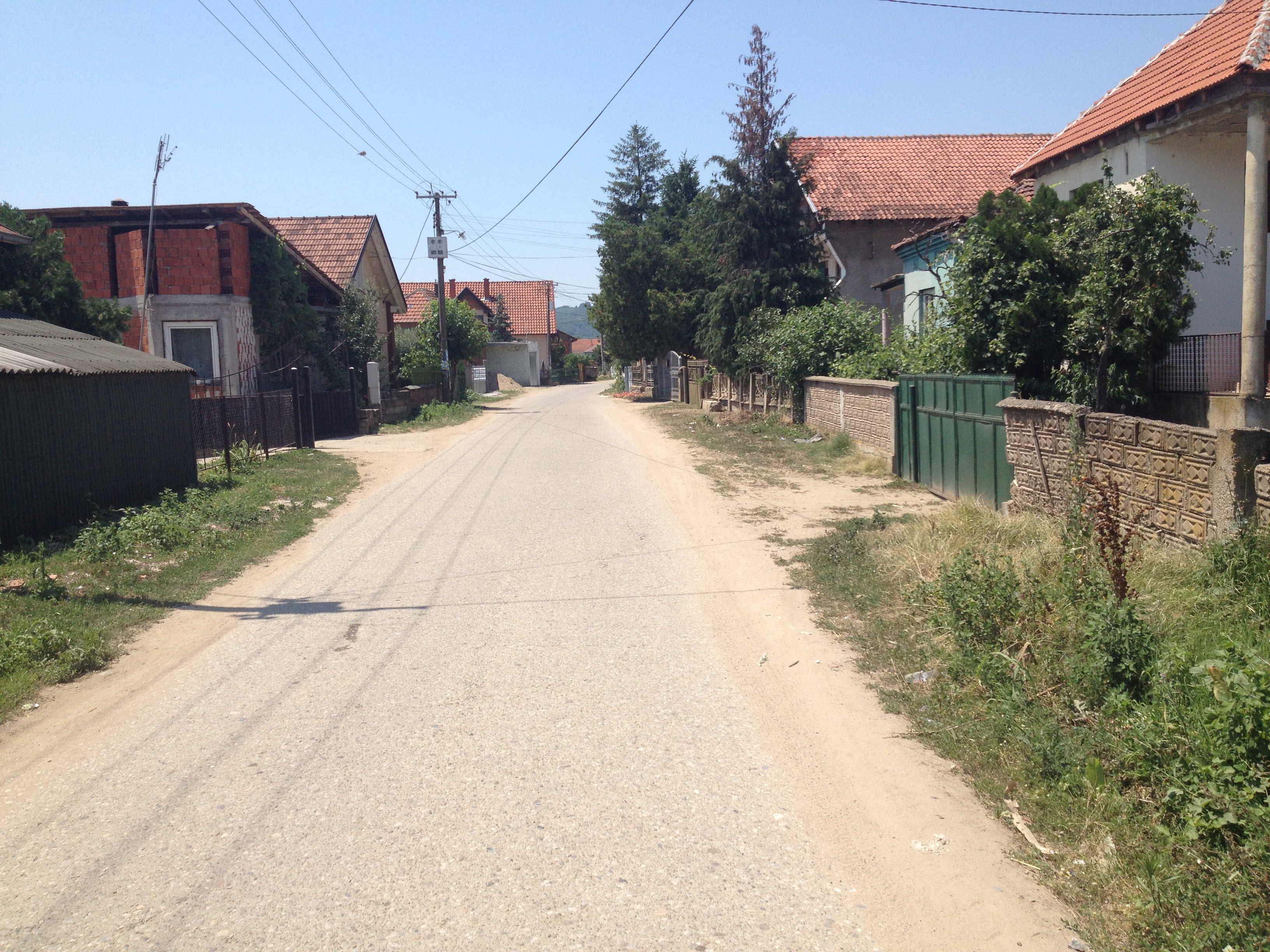 Lipovica, LeskovacСрпски (ћирилица): Липовица, Лесковац